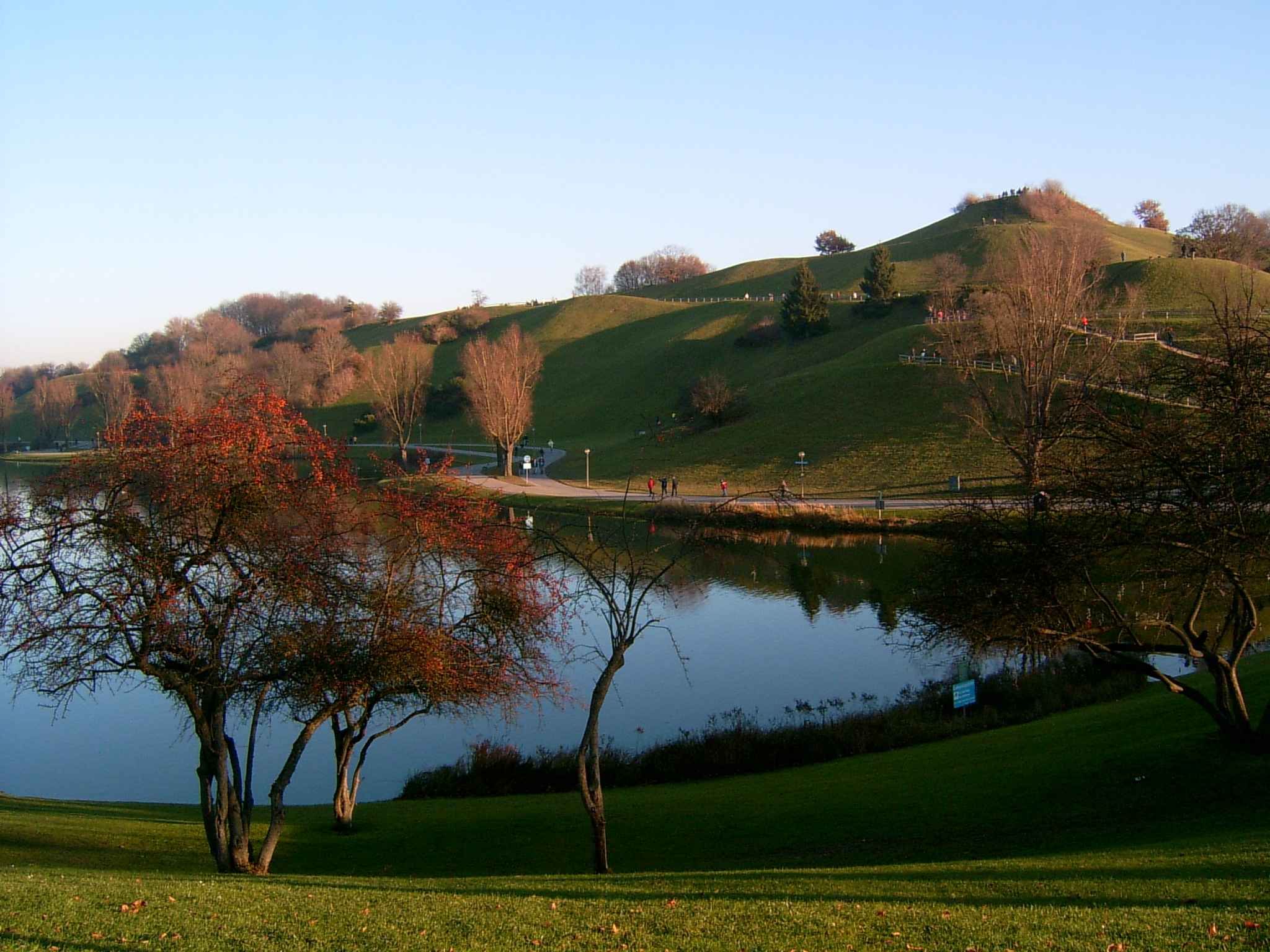 Olympiaberg und Olympiasee in München